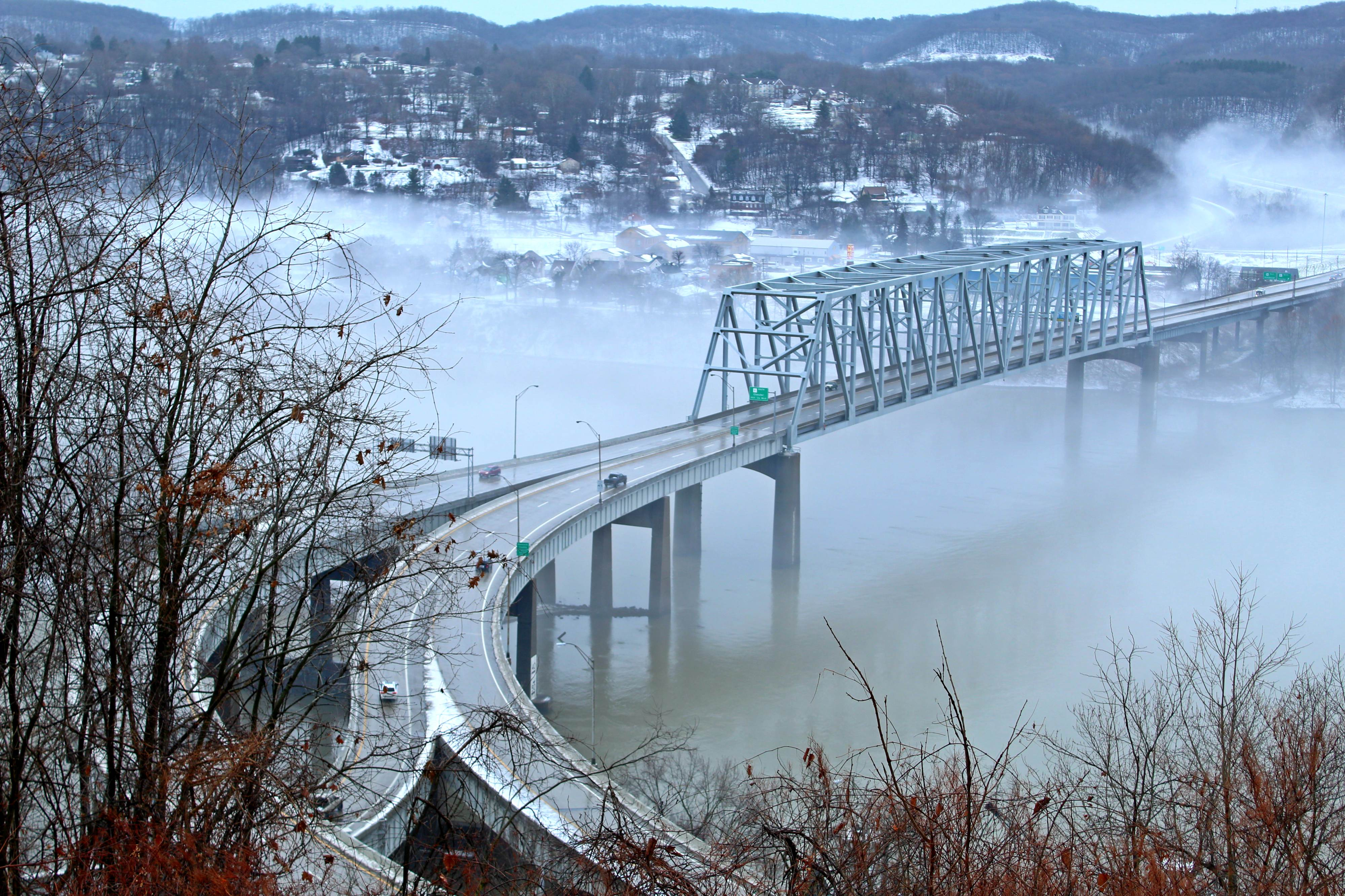 Route 30 and the Jennings Randolph Bridge as it crosses the Ohio River connecting Ohio and West Virginia, January 2019.